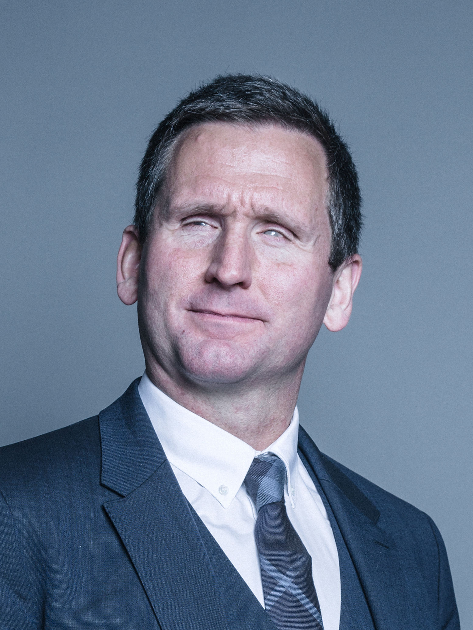 Official portrait of Lord Holmes of Richmond